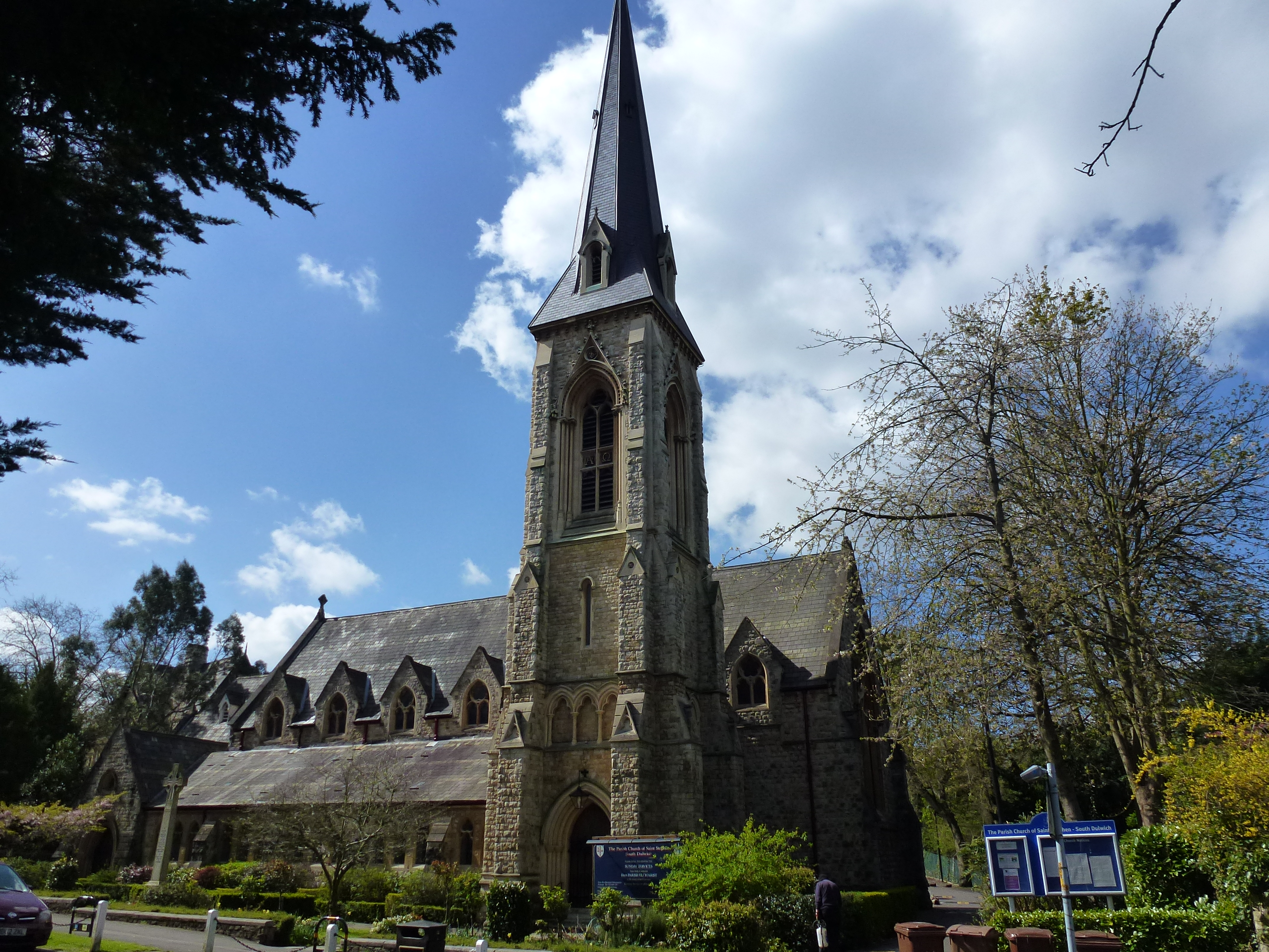 St Stephen's parish church, College Road, South Dulwich, London SE21, seen from the northeast